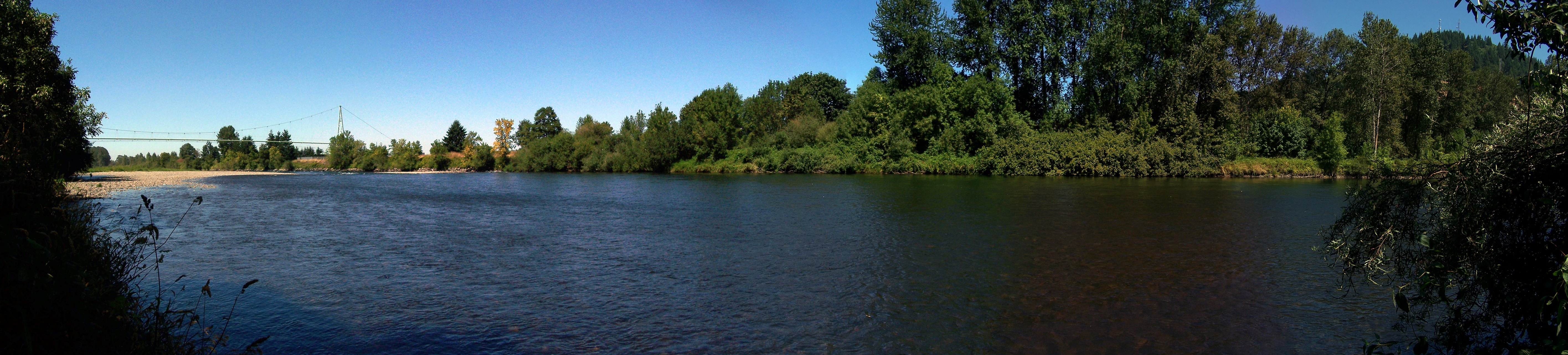 A panorama of the McKenzie River from Armitage County Park near Coburg.